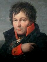 Gerhard von Scharnhorst, portrait by Friedrich Bury